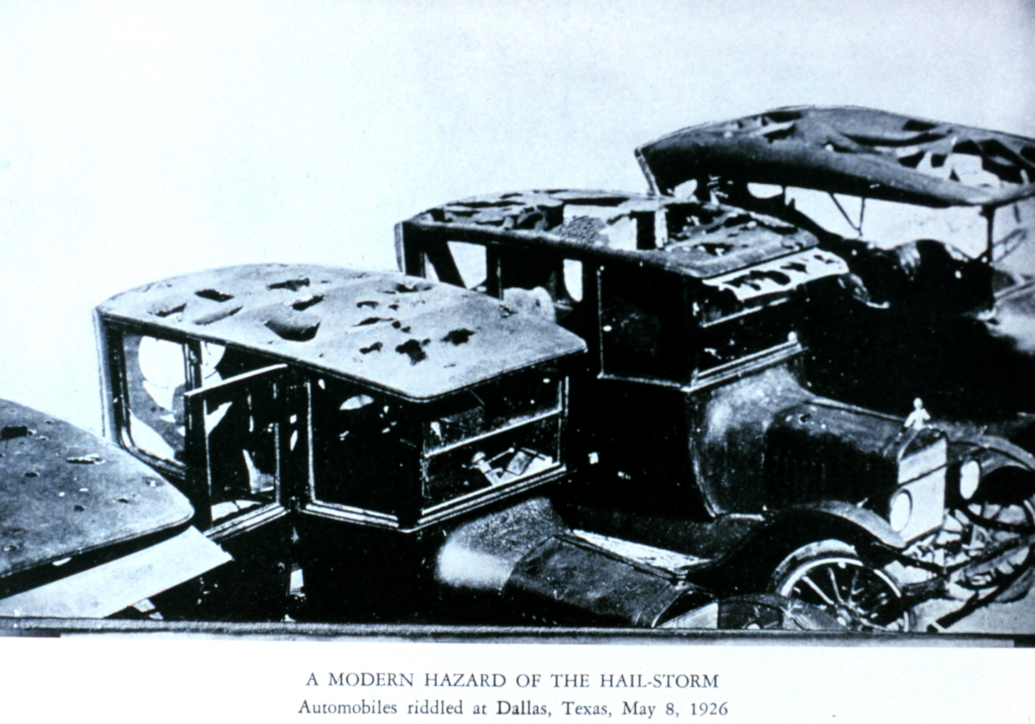 "A Modern Hazard of the Hail-Storm." Automobiles riddled at Dallas, Texas, May 8, 1926. In: "A Book About the Weather" by Charles F. Talman, 1931. P. 18. Library Call Number M T151b. Texas, Dallas.